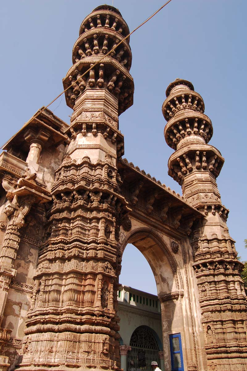 Kalupur Railway Station